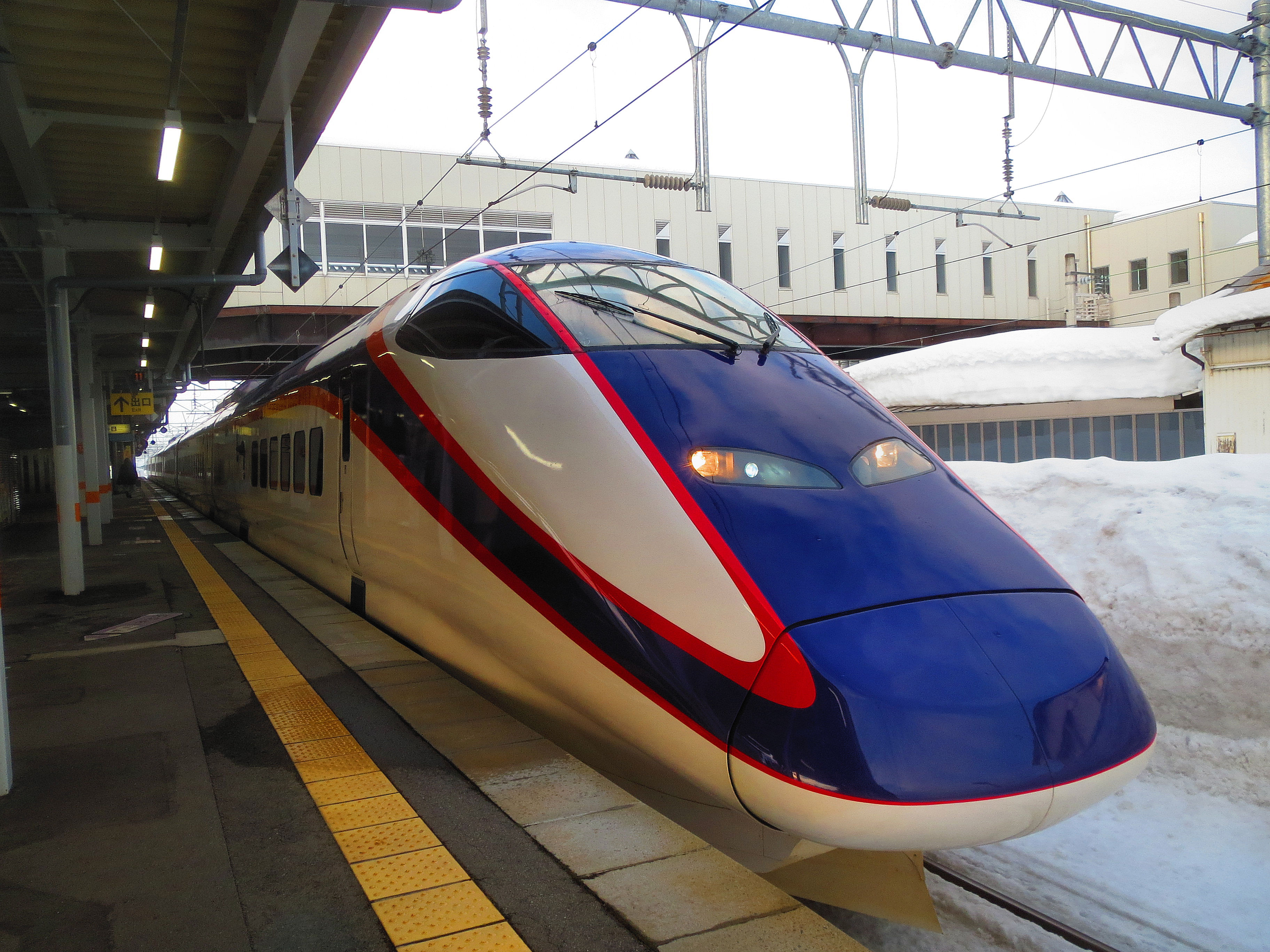 A reliveried JR East E3-2000 series shinkansen set on a Yamagata Shinkansen Tsubasa service at Yonezawa Station